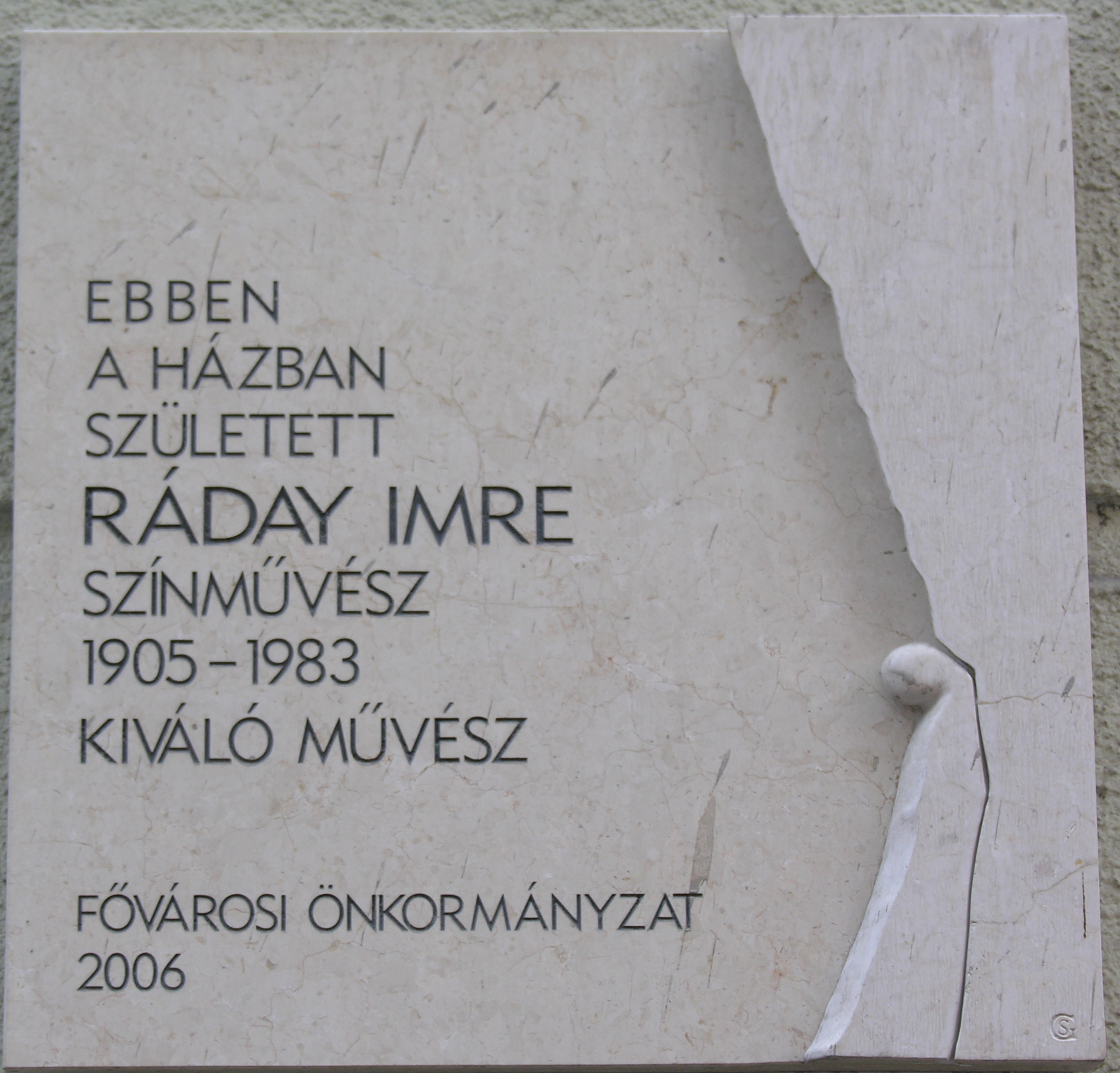 Commemorative plaque of Imre Ráday in Budapest District IX, Ráday Street No 14